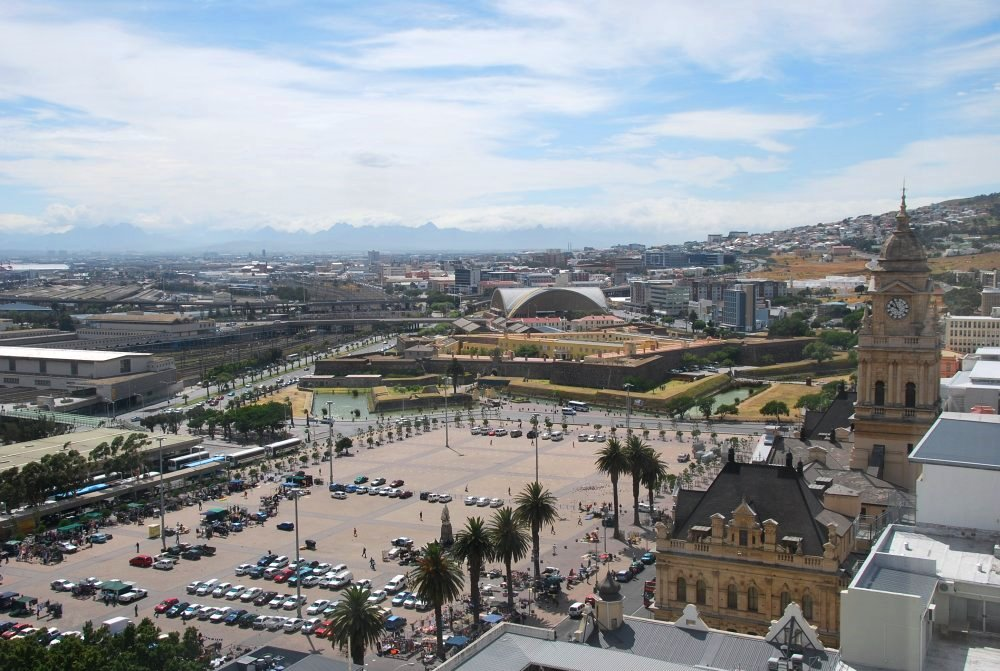 View of the City Hall, Grand Parade and Castle from the Mutual Building, Darling Street, Cape Town; the Hottentot Hollands mountains are in the distant background.